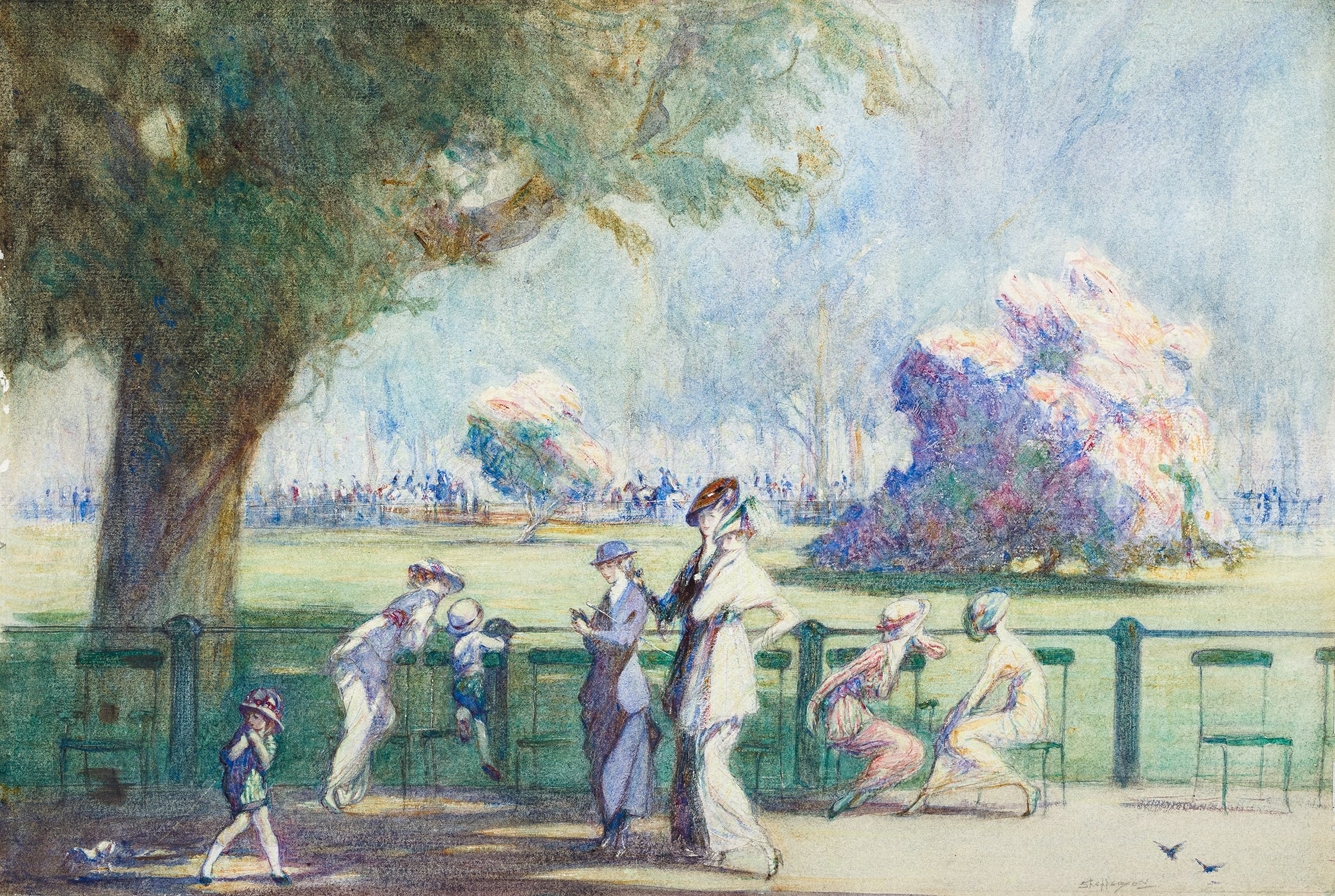 Watercolour. Signed. Inscribed verso ‘ILN’ (‘Illustrated London News’) Original inscribed and dated ‘Supl. Page x-xi / June 13th 1914’. 12.75x19 inches. Offered for sale by Abbott and Holder in September 2019.